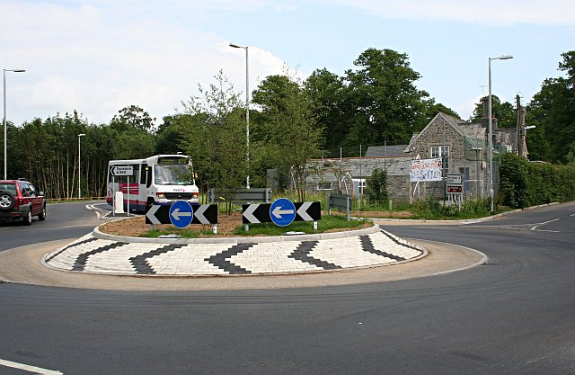 Gulworthy. This is known to most people as a road junction - a roundabout - but there is a school and a church here also beyond the roundabout.